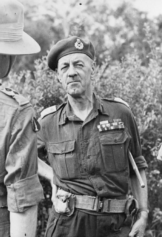 Portrait of General Sir Geoffrey Scoones (1893 - 1975), Commanding 4th Corps, in a forward area, Burma.